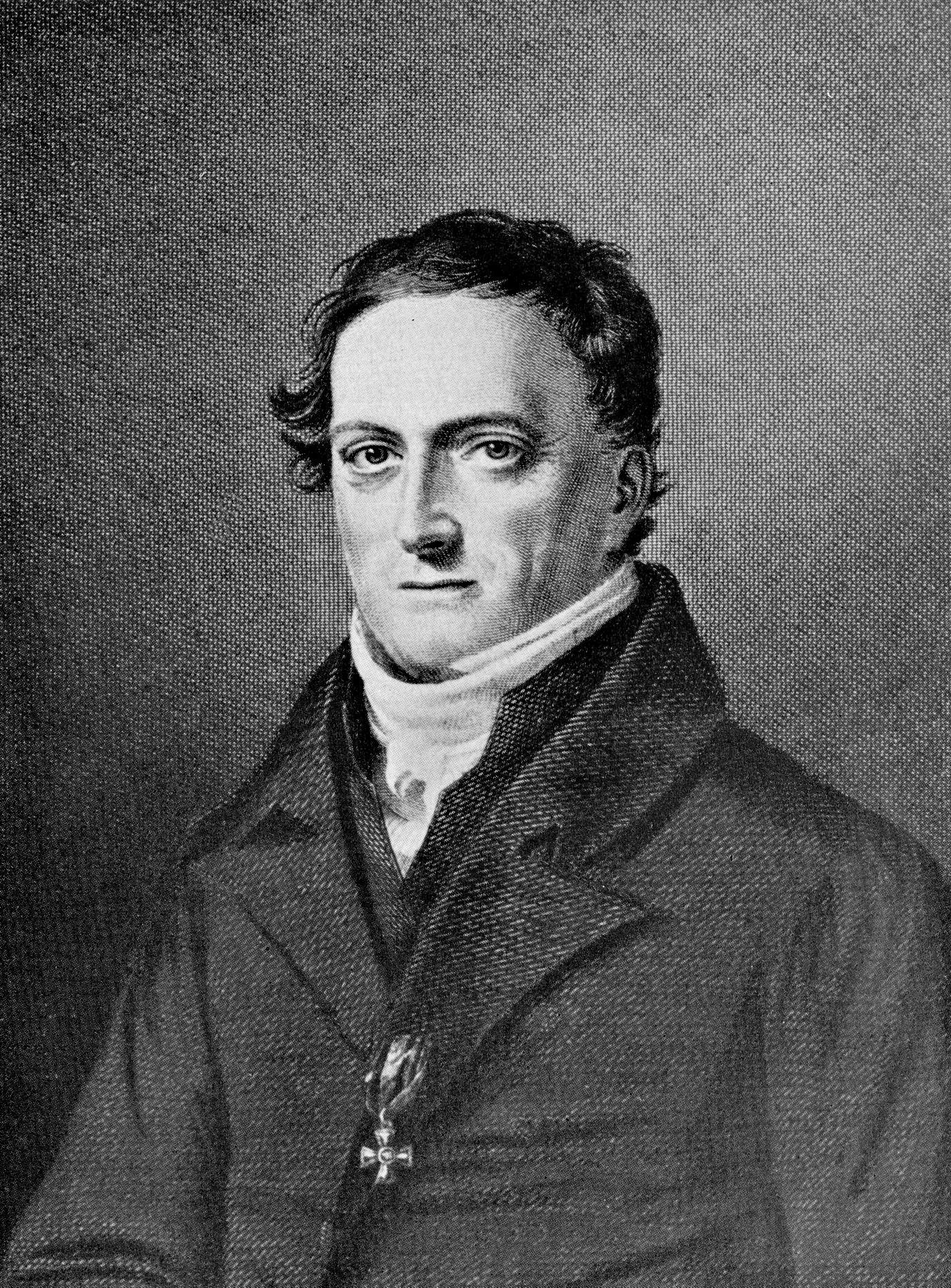 Johann Friedrich Herbart (1776-1841); 16:12 cm